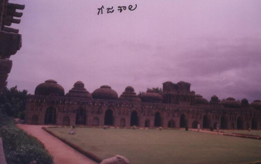 This is a beautiful structure of elephants stable situated at hampi a world heritge centre in Karnataka a Indian State""